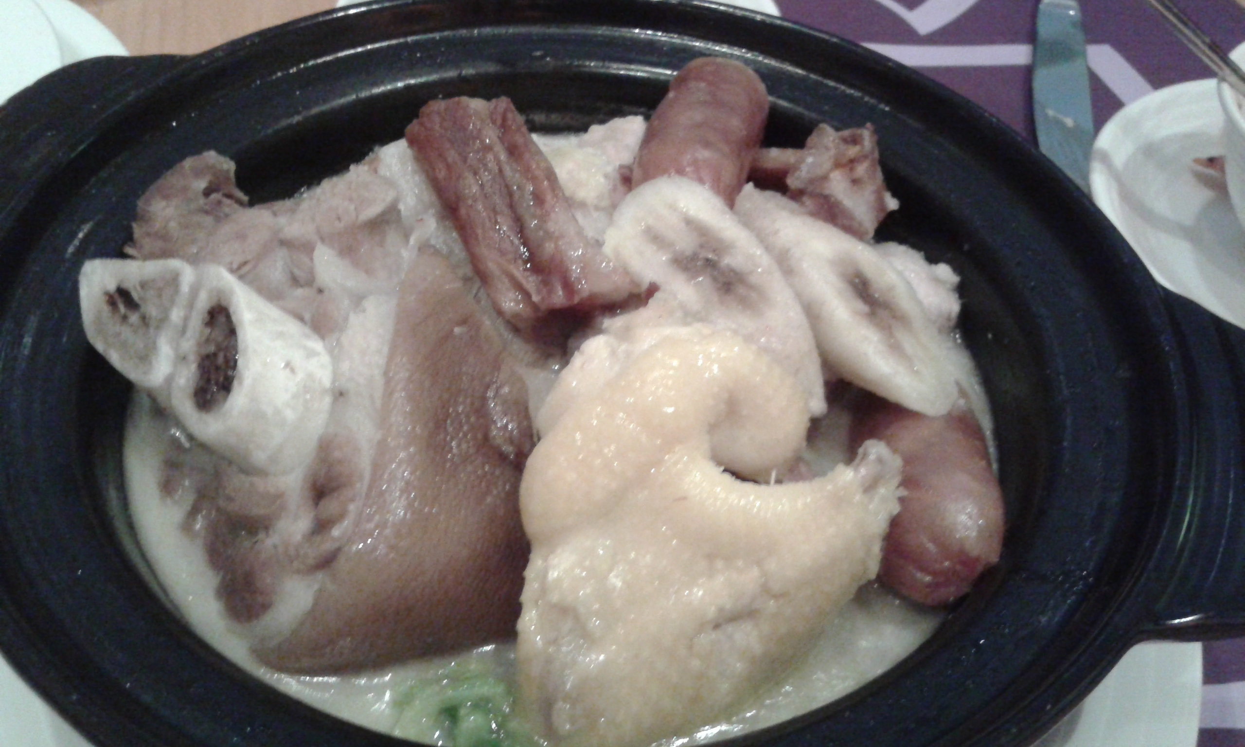 This photo has been taken in the country: China